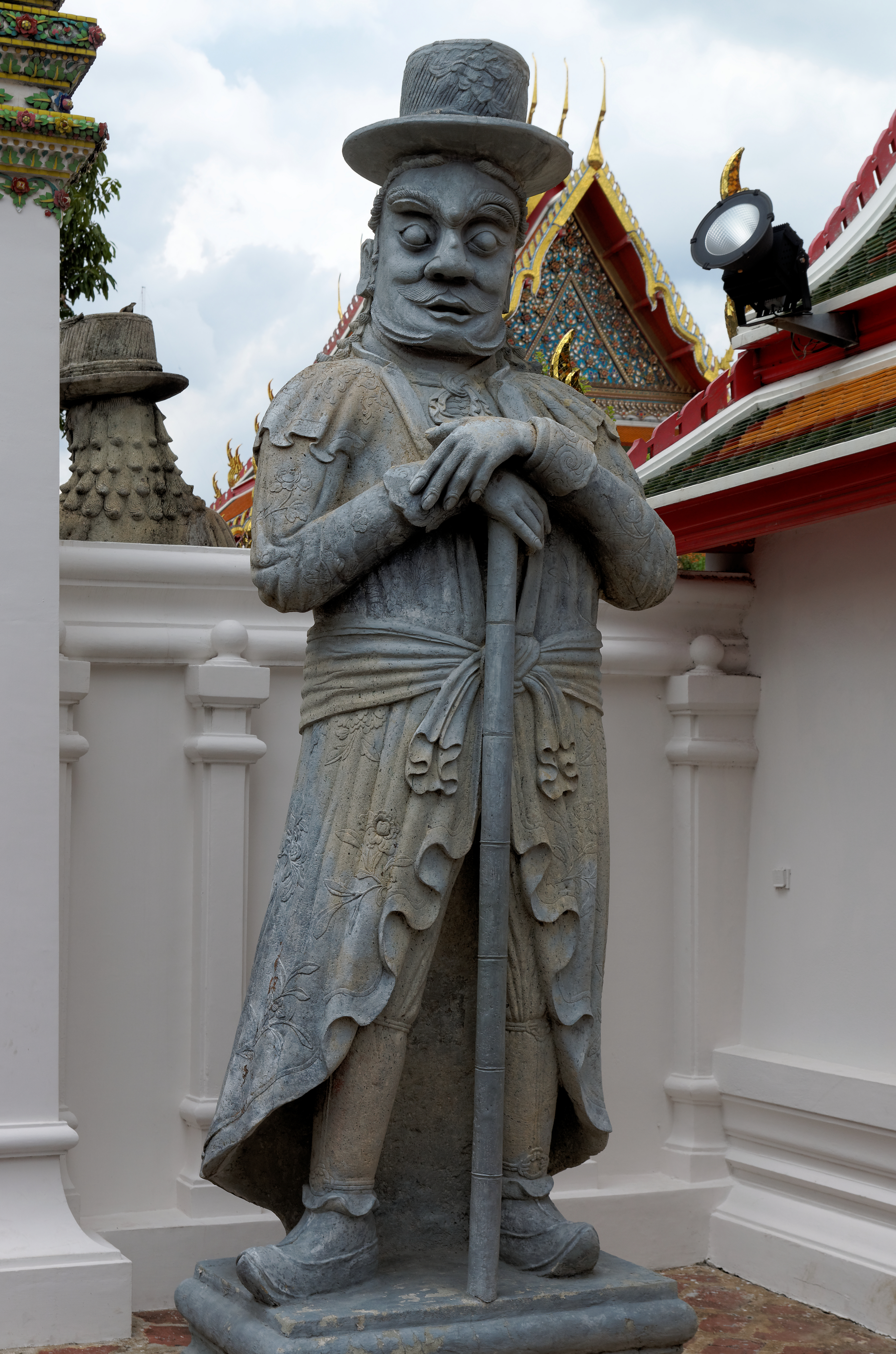 Farang guardian statue at Wat Pho temple, Bangkok